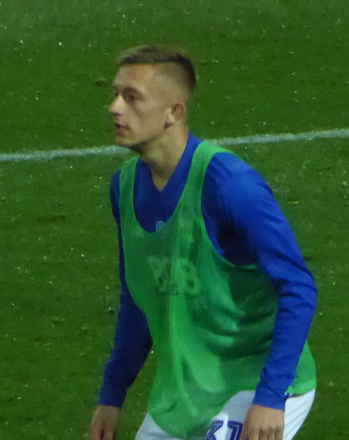 Charlie Lakin warming up during Birmingham City F.C.'s EFL Championship match against Brentford F.C. at Griffin Park on 2 October 2018